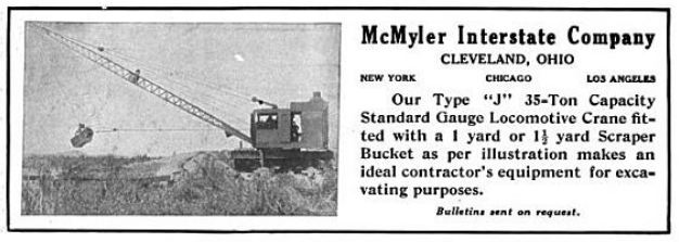 A 1912 advertisement highlighting the McMyler Interstate Company's "Type J 35-Ton Capacity Standard Gauge Locomotive Crane" fitted with a 1 yard or 1 yard Scraper Bucket from the industry journal "Engineering and Contracting", Volume XXXVIII, Number 26, Dec.26, 1912, p. 30